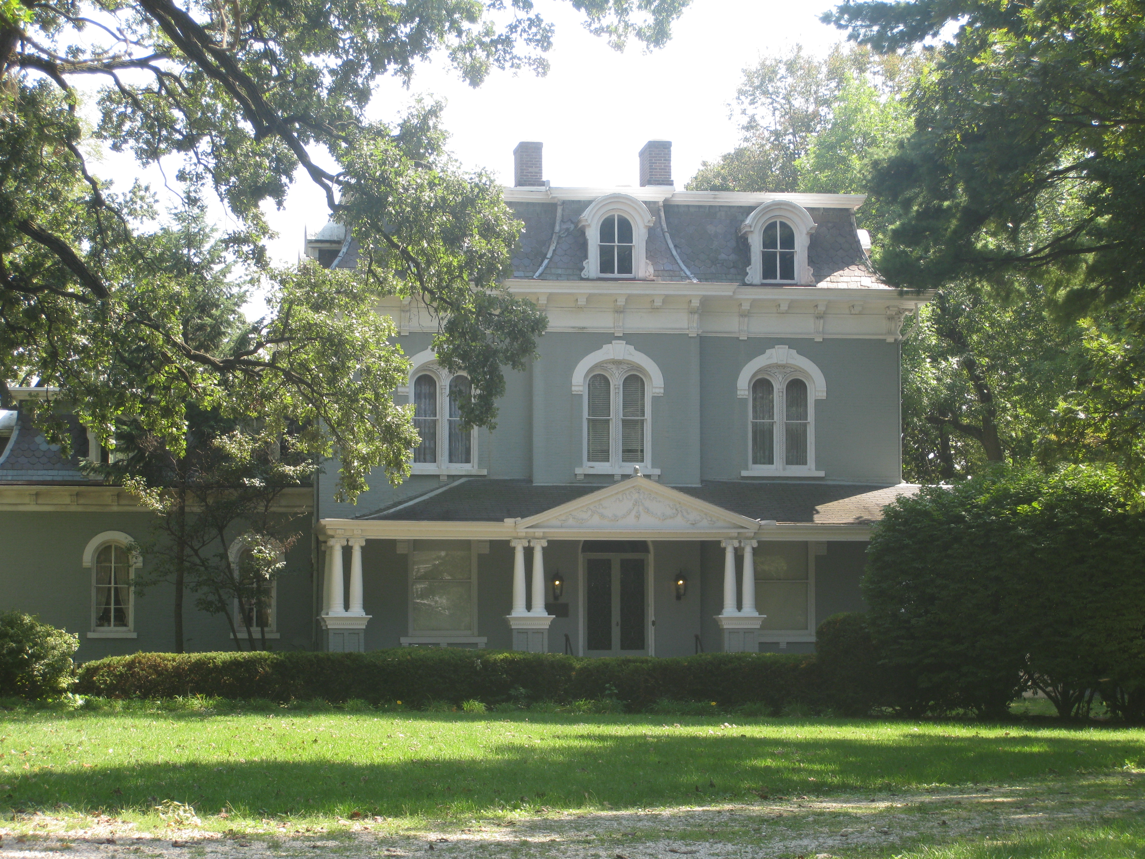 Pettingill-Morron House, Charles Ulricson, architect.